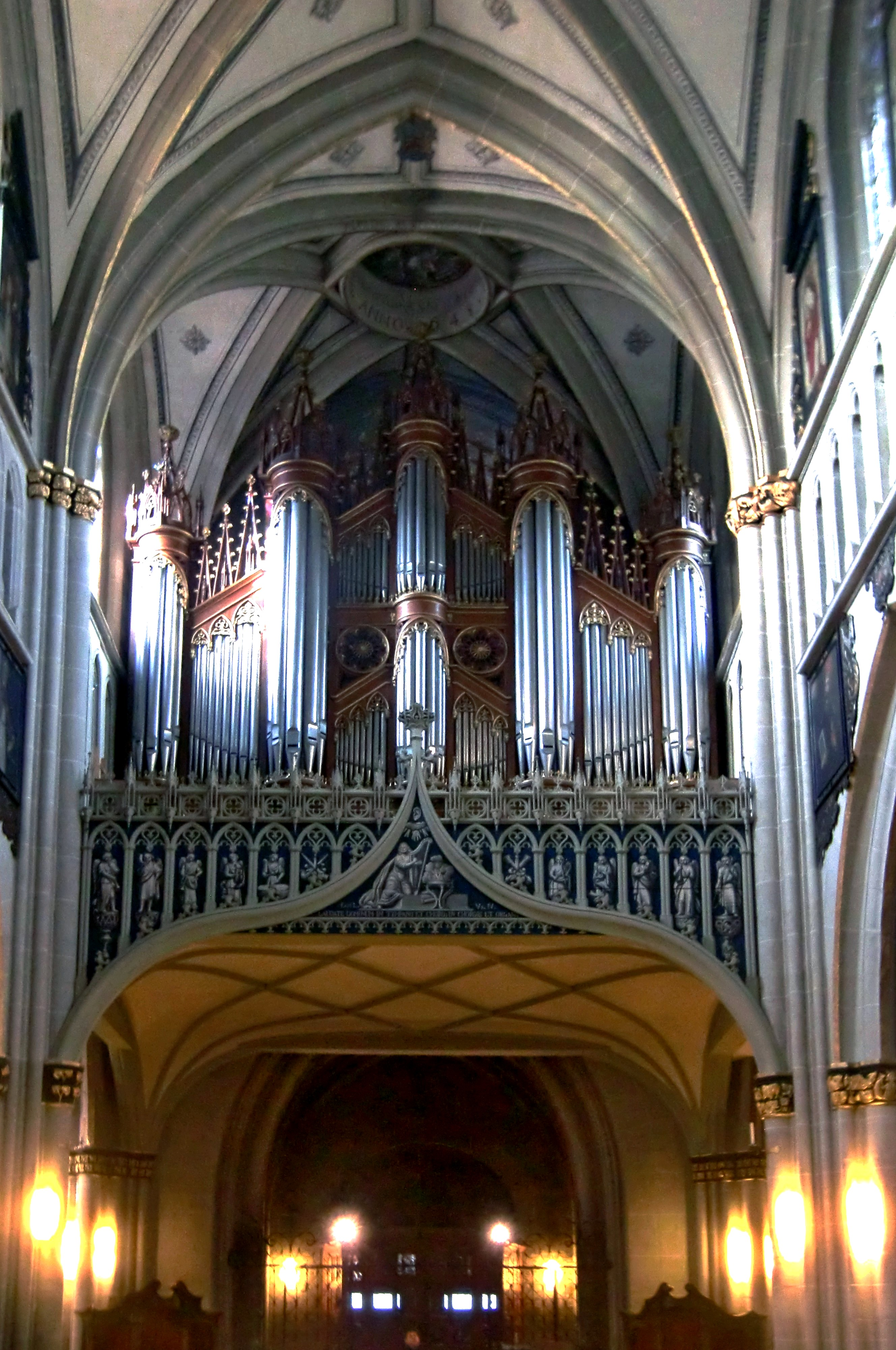 Fribourg, Cathedral, the nave and the organ of Aloys Mooser (1834)